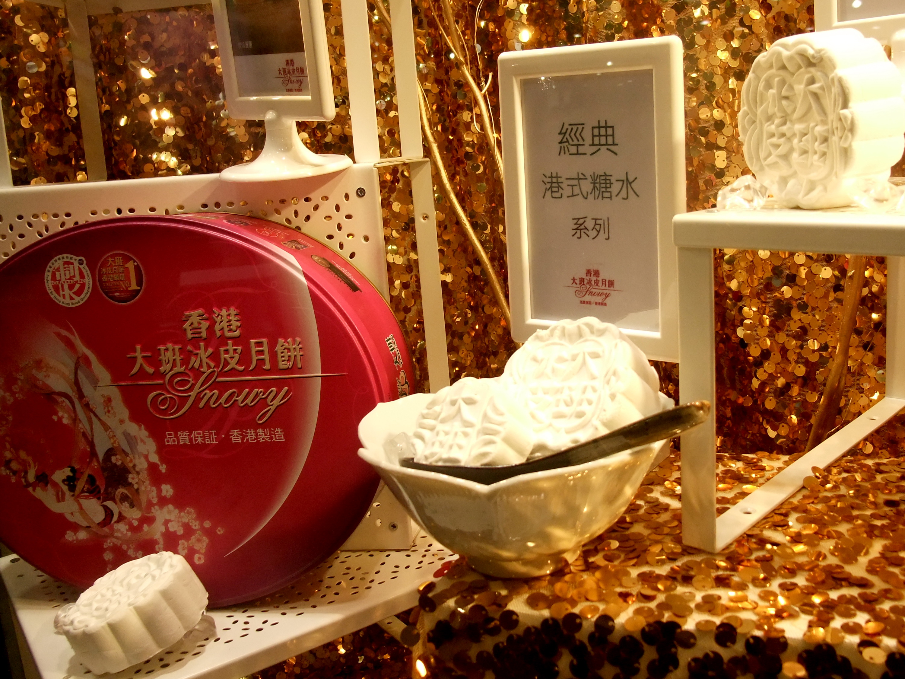 A display at the Taipan Bread & Cakes booth, HKTDC Food Expo 2011.